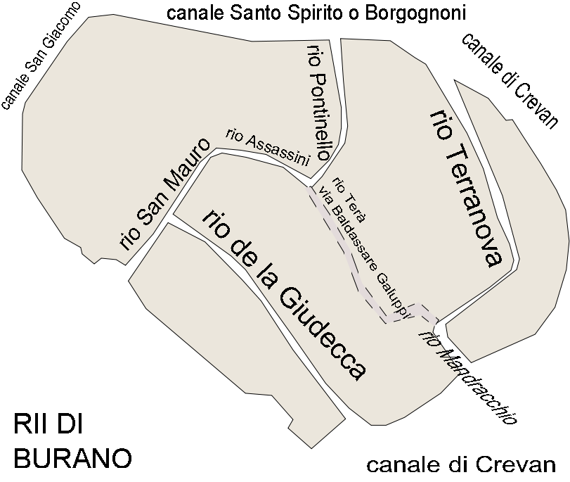 map of canals of Burano Venice